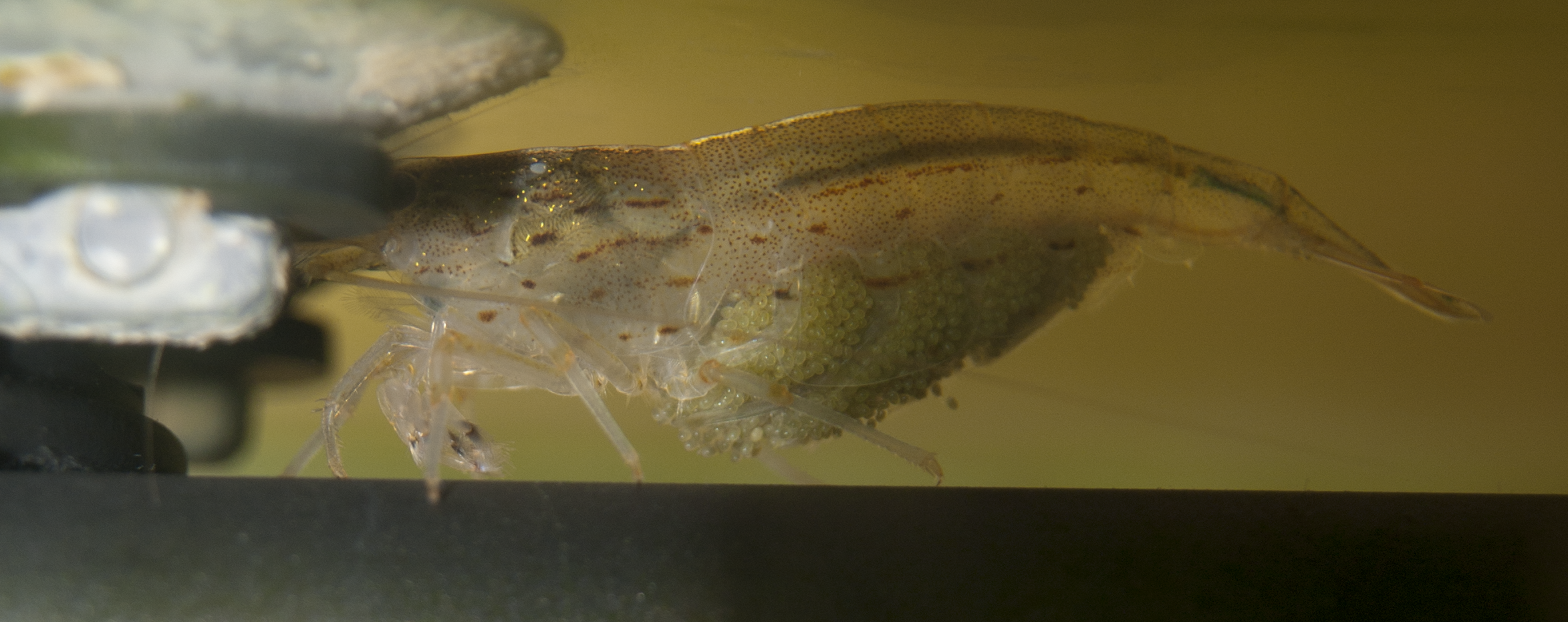 Amano shrimp (female) with 10 days old eggs (Caridina multidentata)